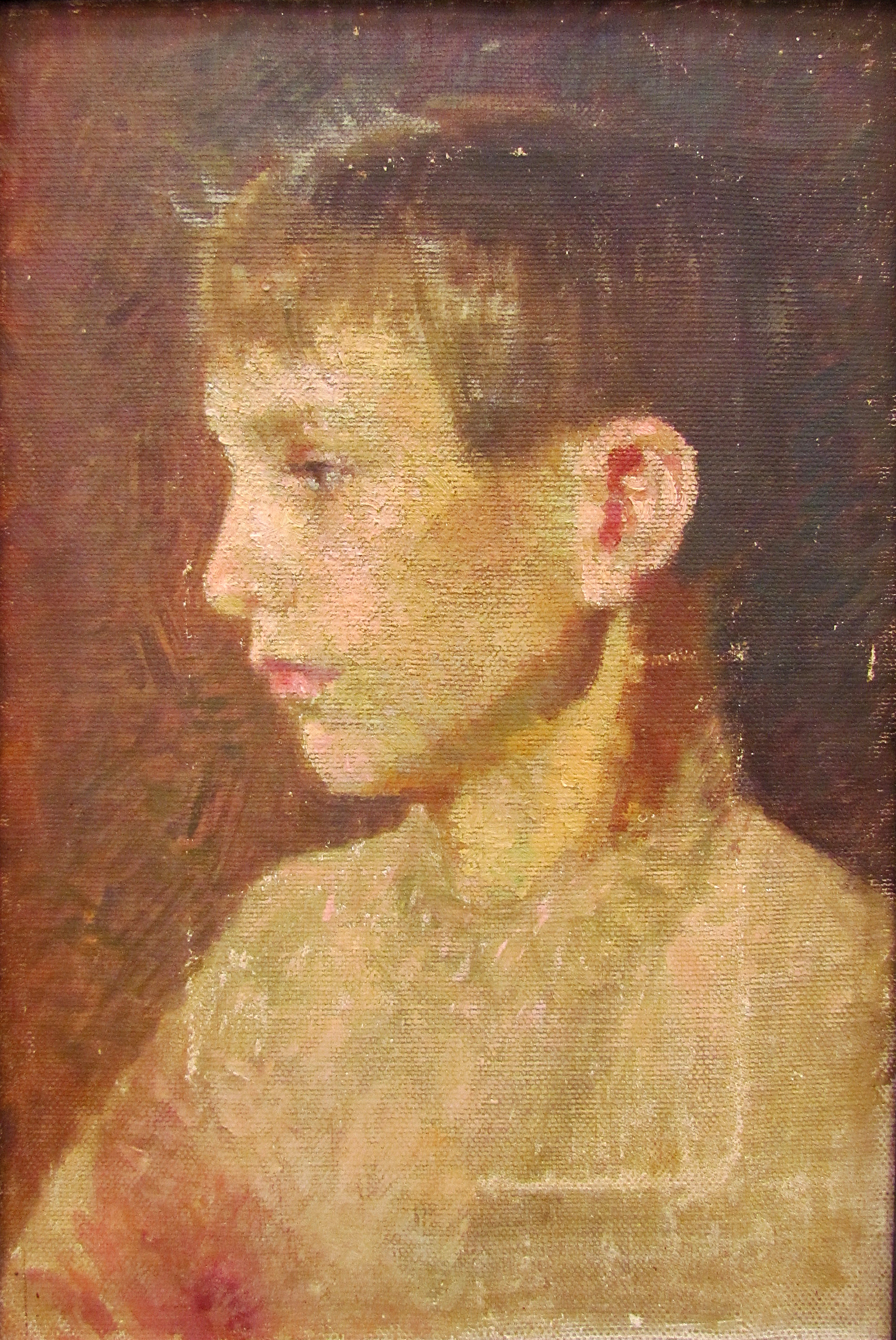 Pero Popovic, boy, 1908